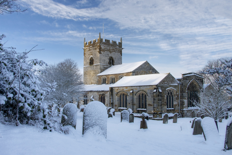 St Helen and the Holy Cross Church, Sheriff Hutton captured during the snows of December 2009.